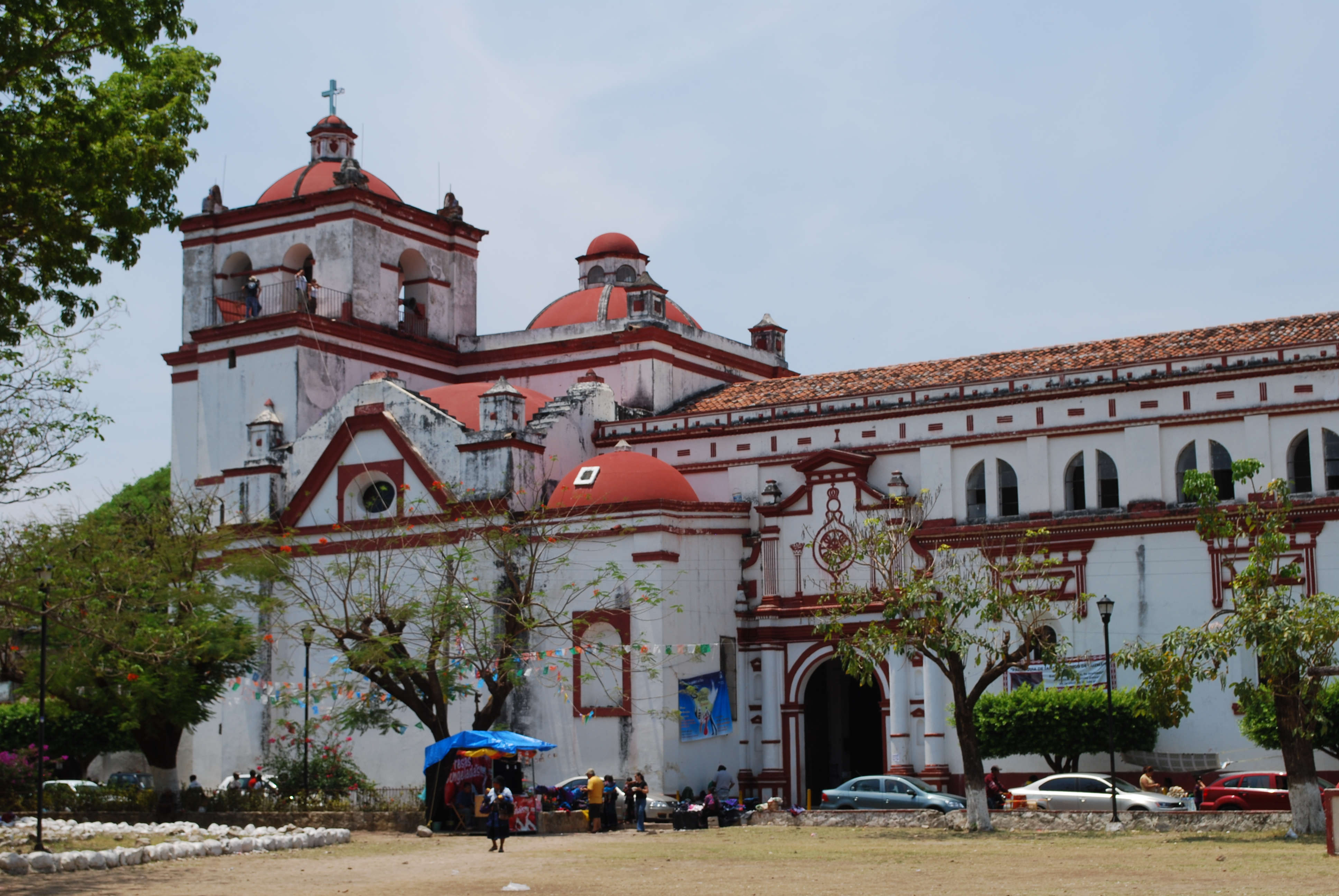 View of part of the Santo Domingo Church in Chiapa de Corzo, Chiapas, Mexico